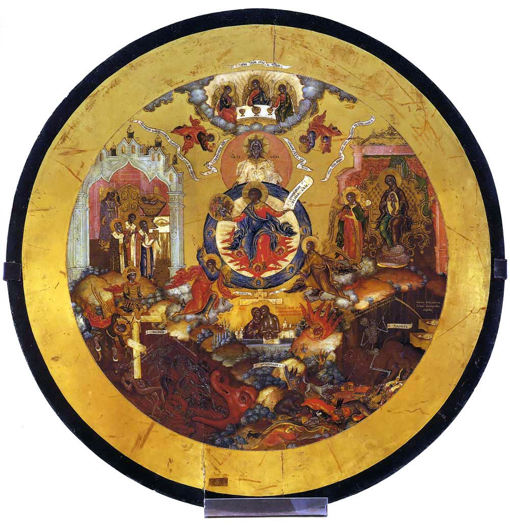 From the iconostasis of the old believers' chapel in the Rastorguyev-Kharitonov's Estate. Hosted in the Sverdlovsk Oblast local museum. Restored at 1988 by V. A. Polyakov.